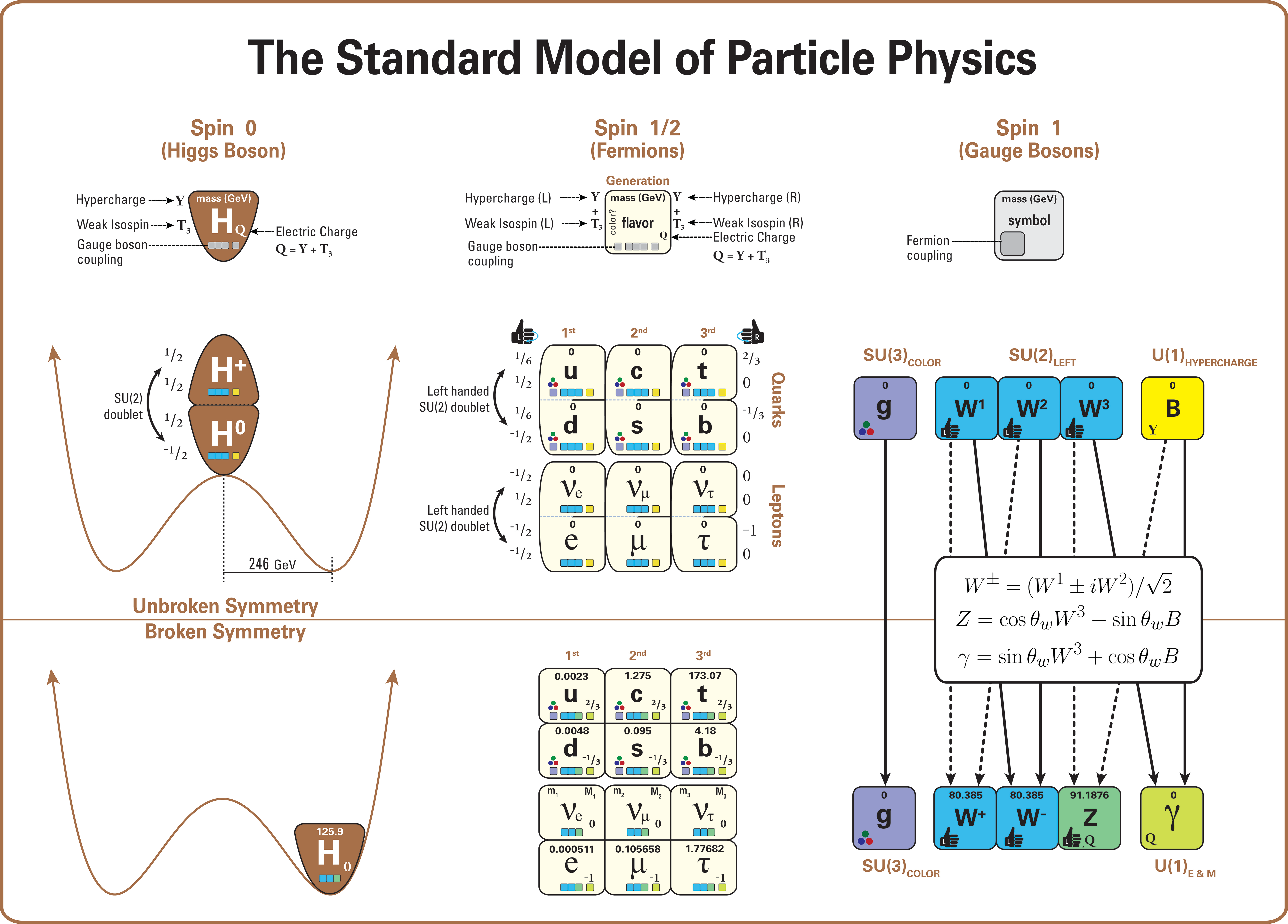 This diagram displays the structure of the standard model (in a way that displays the key relationships and patterns more completely, and less misleadingly, than in the more familiar image based on a 4x4 square of particles). In particular, this diagram depicts all of the particles in the standard model (including their letter names, masses, spins, handedness, charges, and interactions with the gauge bosons -- i.e. with the strong and electroweak forces). It also depicts the role of the Higgs boson, and the structure of electroweak symmetry breaking, indicating how the Higgs vacuum expectation value breaks electroweak symmetry, and how the properties of the remaining particles change as a consequence.